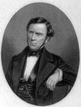 Daniel Moreau Barringer, US Representative from North Carolina